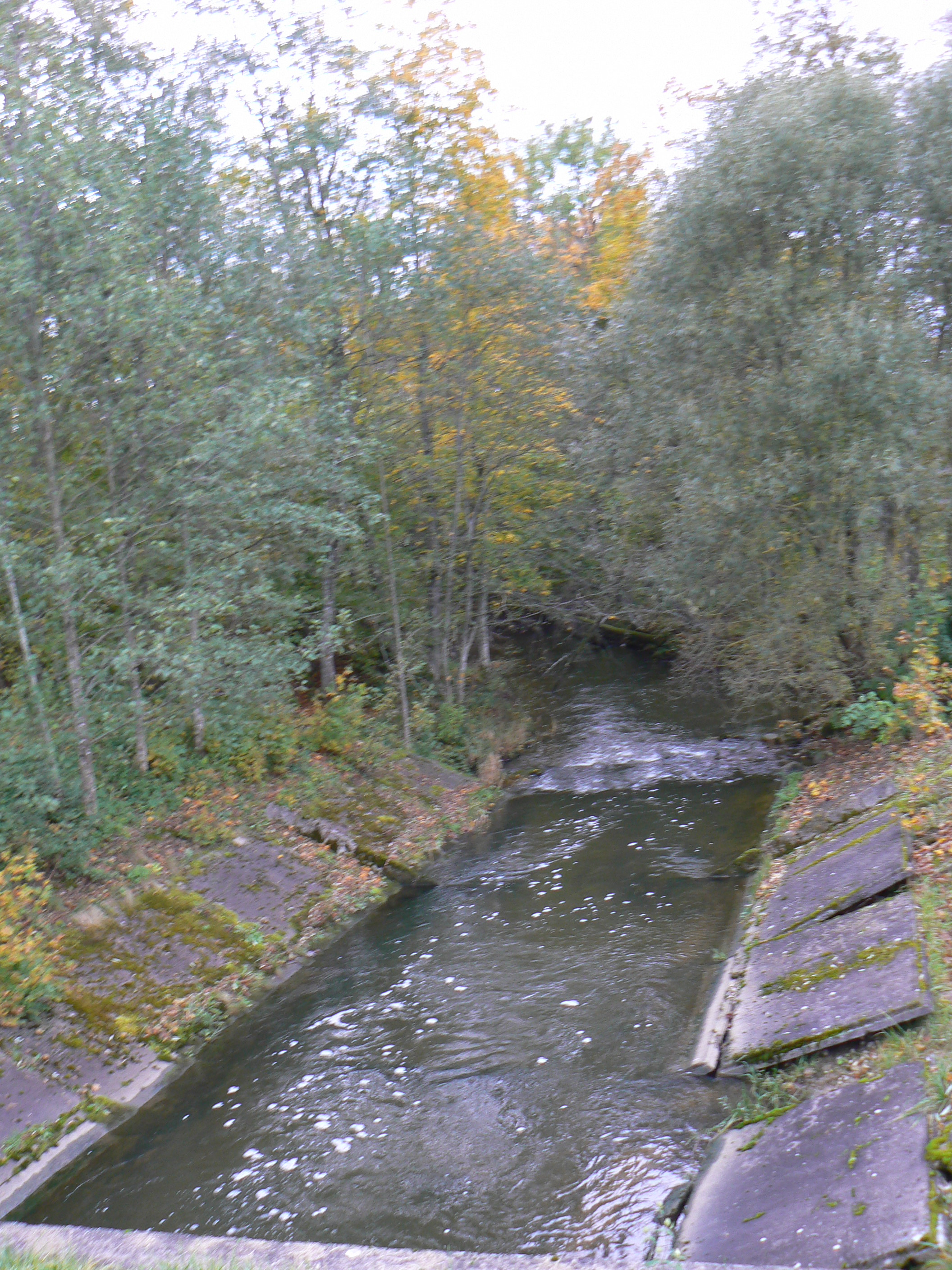 Agluona in village AgluonėnaiLietuvių: Agluona Agluonėnuose